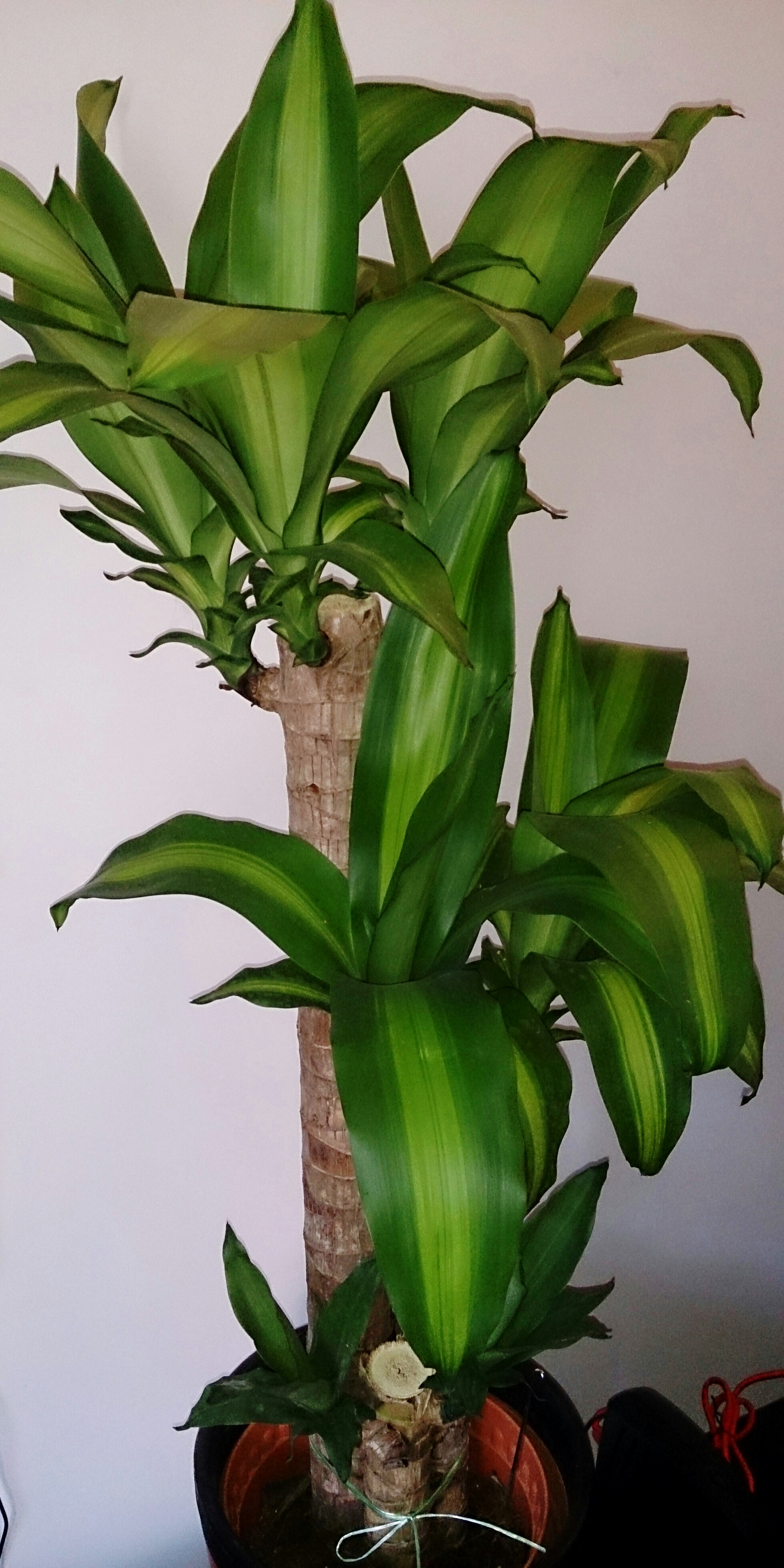 Dracaena fragrans 'Massangeana'. Common name: Corn Plant. Iron Plant. ‘Massangeana’ is a popular cultivar that features a wide central yellow stripe on each leaf.